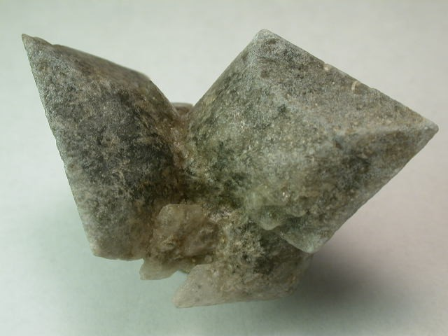 Thenardite Locality: Soda Lake, Carrizo Plain, San Luis Obispo County, California, USA Original description: A 5.2 by 3.3 cms group of two crystals. JSS specimen and photo.